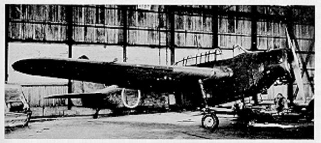 Maintenance of a Kyushu K11W Shiragiku.